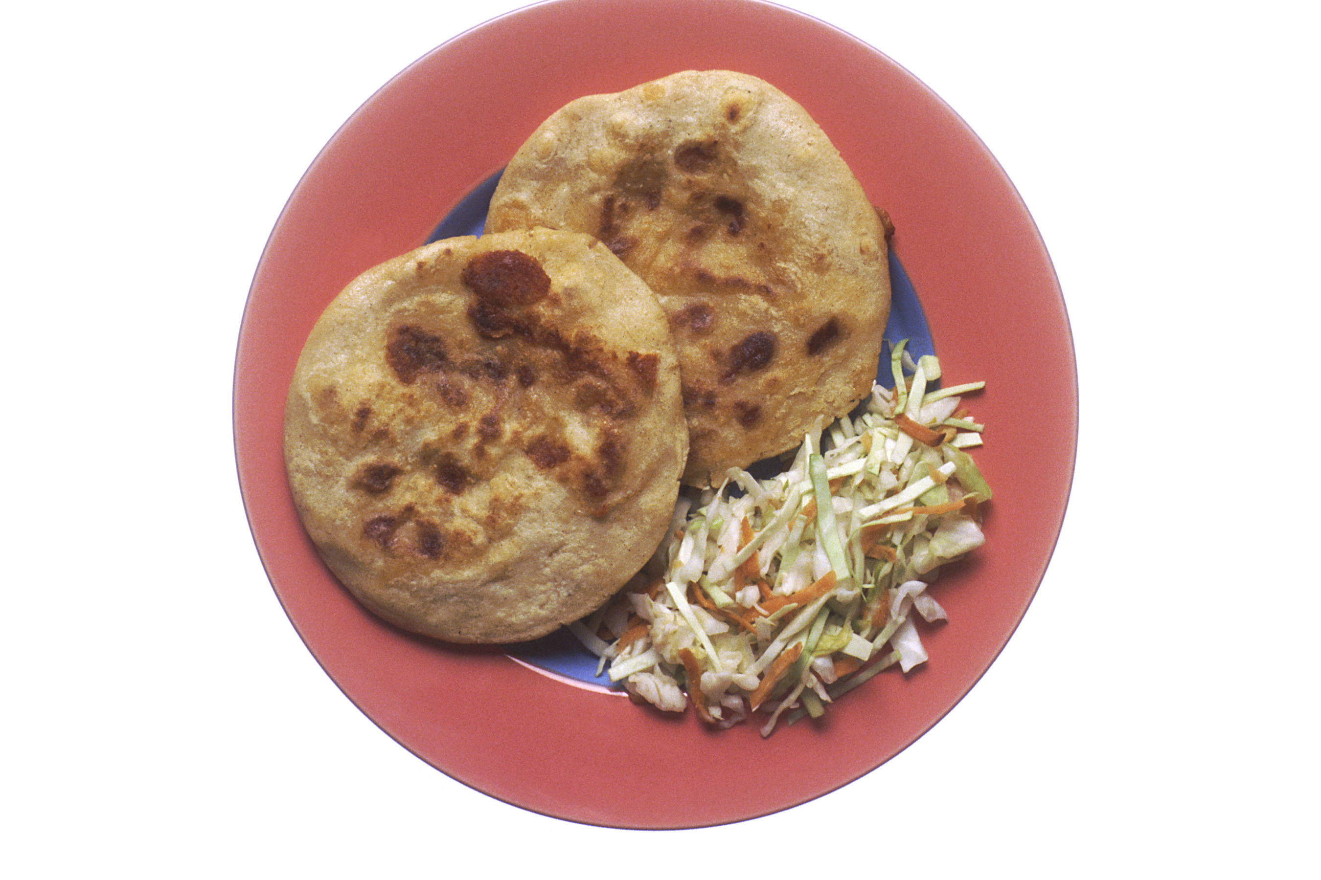 Title Pupusas Description Two pupusas on a plate served with a side of coleslaw-like salad. (pupusas are a grilled or fried dough, similar to a pancake which can be made to be filled or just plain). Topics/Categories Food and Drink Type Color, Photo Source National Cancer Institute